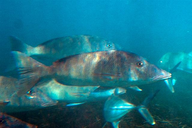 Lethrinus olivaceus photographed in Wakaya, Fiji.